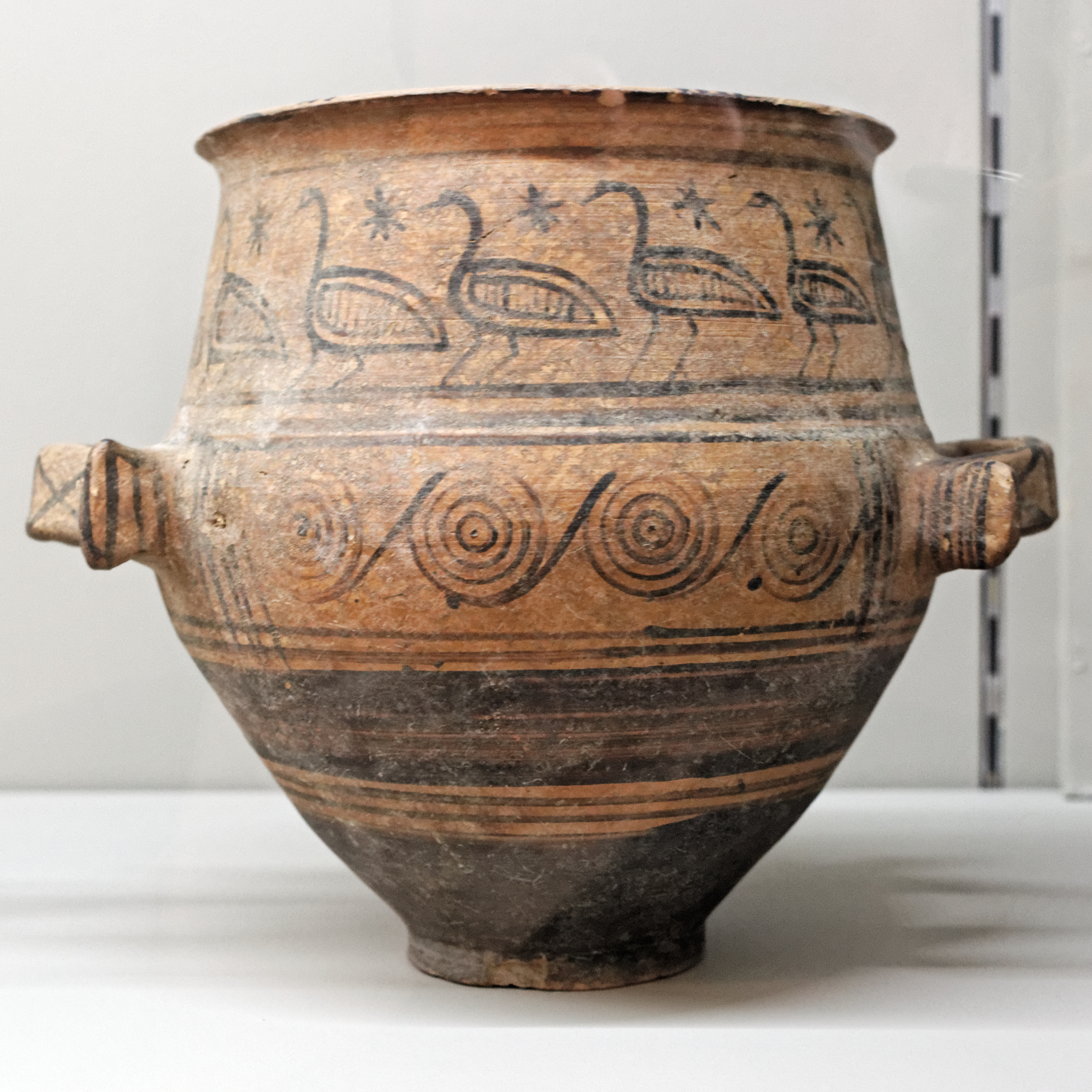 terracotta, painted scenery, geometric period, Thera.